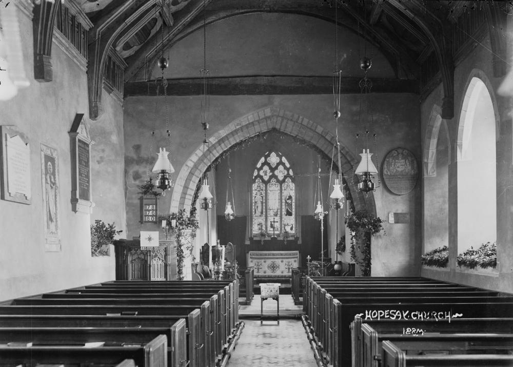 Abstract: Hopesay church